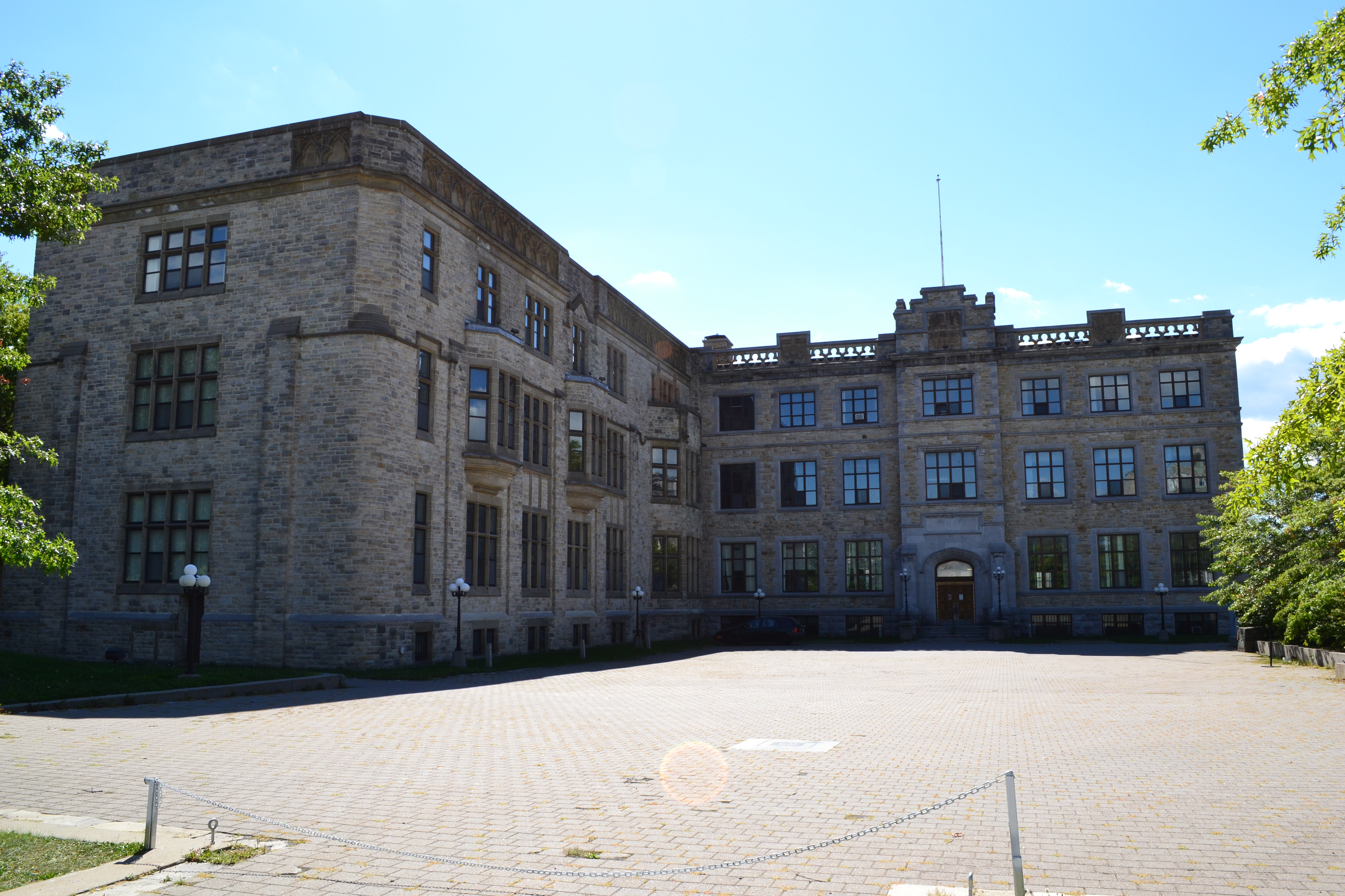 330 Sussex Drive, Ottawa, ON. Façade of the former site of the Canadian War Museum.